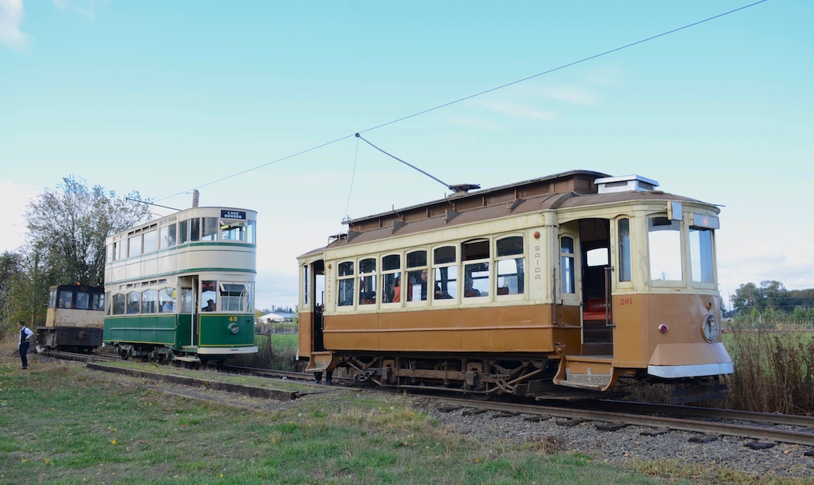 Two streetcars/trolleys in operation at the Oregon Electric Railway Museum, in Brooks, Oregon, seen at the outer end of the trolley line, Willow Creek "station". Car 210 (currently showing the wrong number, "201", which it received only after retirement) is from Porto, Portugal, where it was built in 1940, based generally on American (J.G. Brill) designs of the 1910s. Double-decker 48 is a 1928-built Blackpool "Standard" tramcar from Blackpool, England, and has been owned by the Oregon Electric Railway Historical Society since 1964. It is one of only very few operating double-deck trams at museums in the United States.